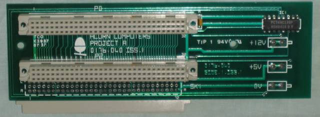 Acorn AKA01 A300 backplane (front).Unlike the A400 series, the Archimedes A305 and A310 did not have a podule backplane installed when they shipped. This is Acorns backplane upgrade which was required before podules could be installed. Other companies also produced backplanes for the Archimedes A300.The instructions for installing a backplane are in the Backplane installation leaflet in the documents section.